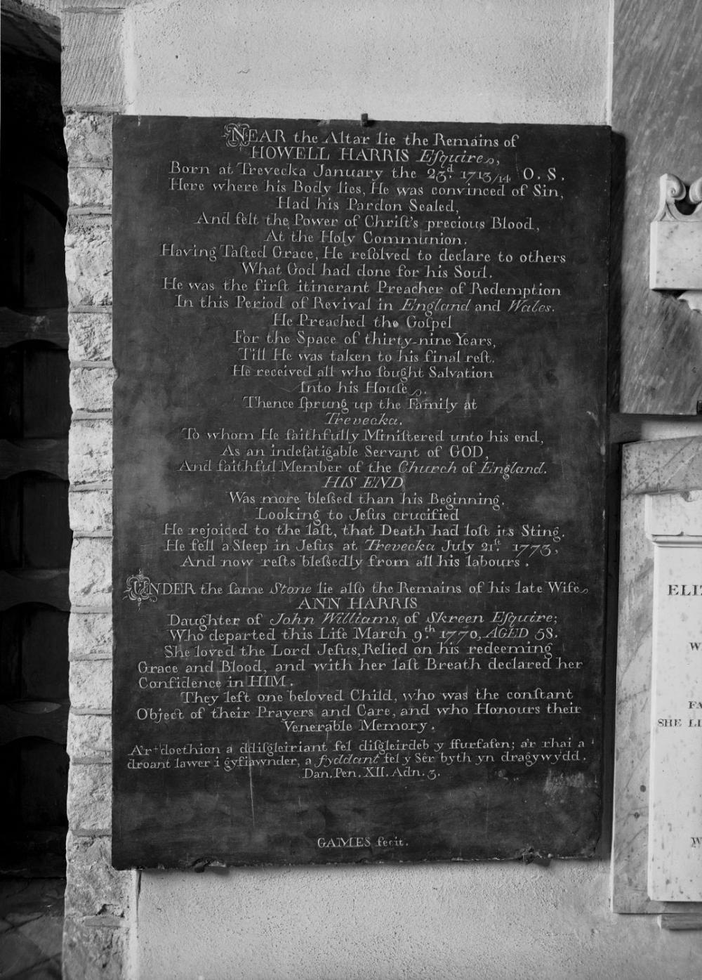 Abstract: Memorial stone of Howell Harris, Trefeca